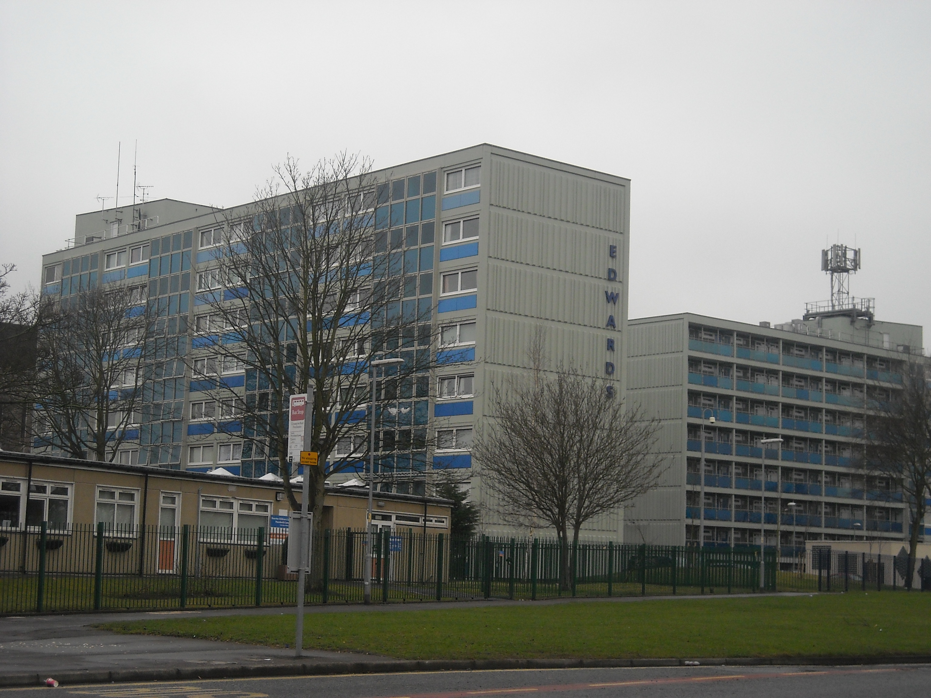 Edwards & Birchtree Court, Wythenshawe